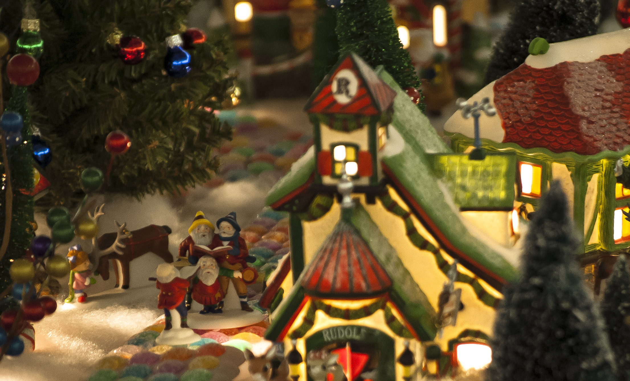 A small group of carolers in a Department 56 North Pole collection village.